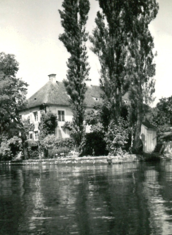 Family Honsell's house, island of Reichenau, Lake Constance, ca. 1940, there has been a spring inside the house called Pirmin's Spring. It was said, that it's water would heal you from eye complaints.